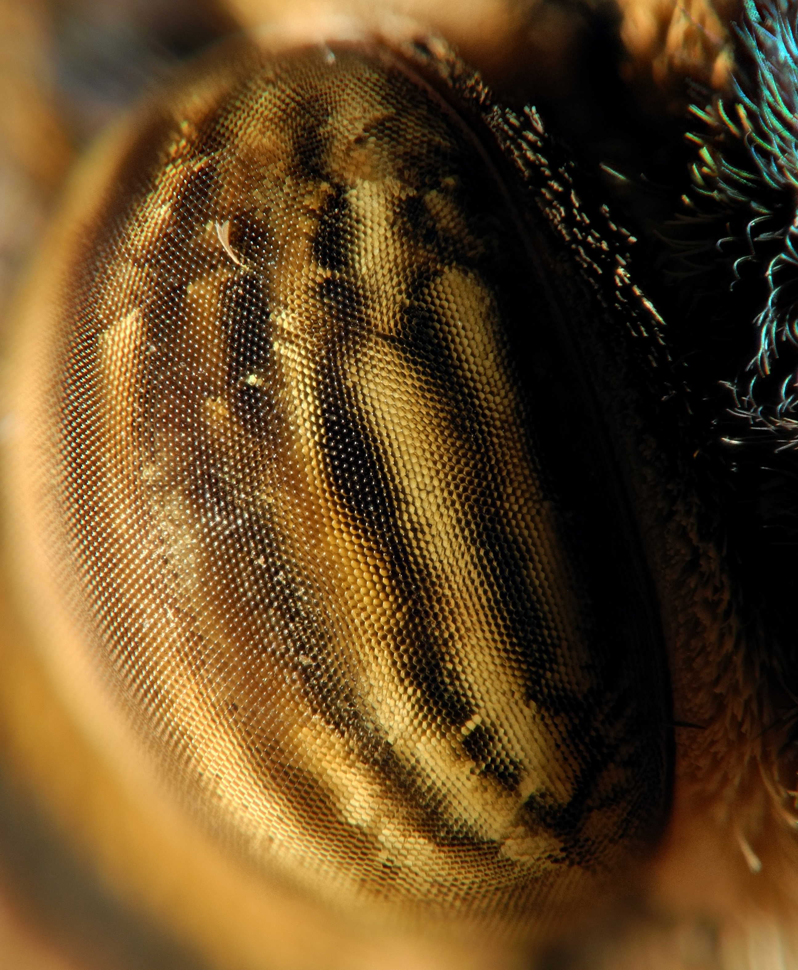 Focus stacking of 48 pictures (using Zerene Stacker).Œil d'un caligo (Caligo sp.) (focus stacking) vu au Jardin des papillons, à Hunawihr (France). Image composée de 48 photos prises avec la bonnette Raynox MSN-505 et assemblées avec Zerene Stacker.